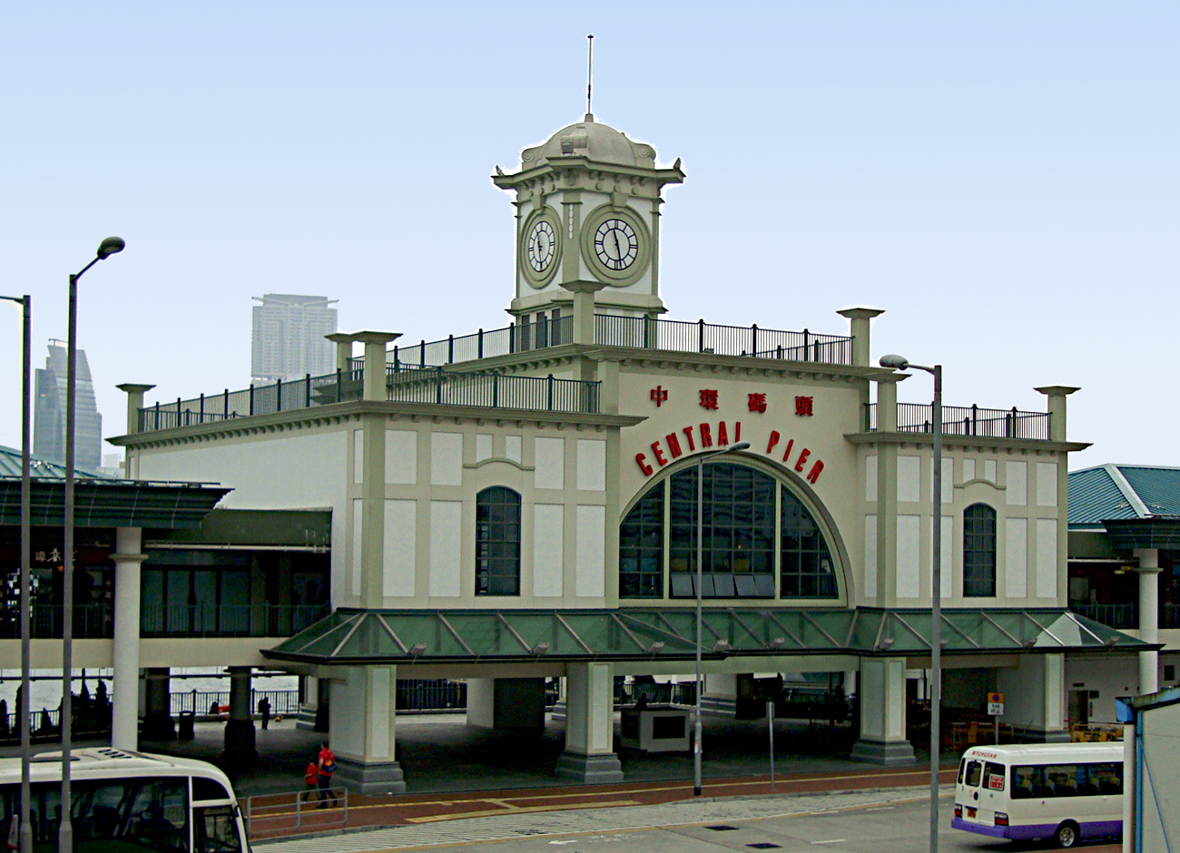 A fron view of Star ferry pier, Central, Hong Kong